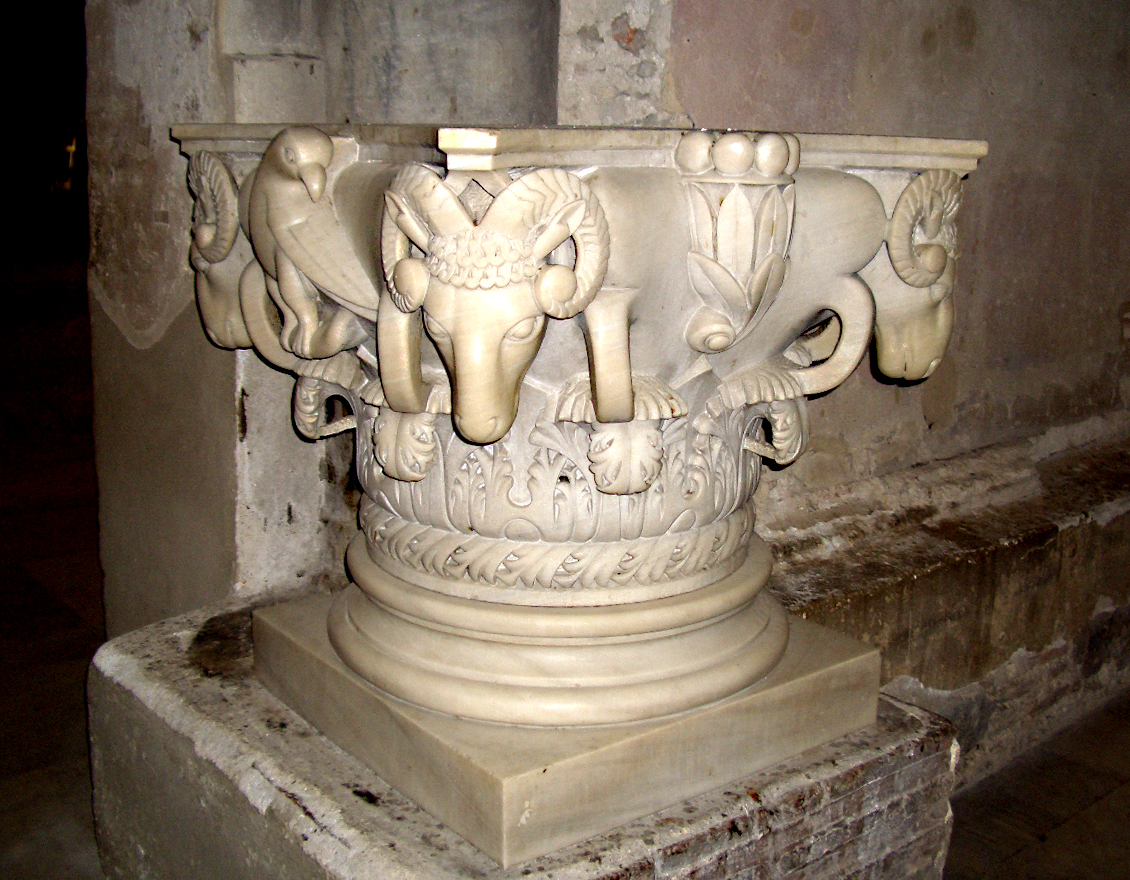 Church of Saint Demetrius Patron Saint of Thessaloniki. Chapiter